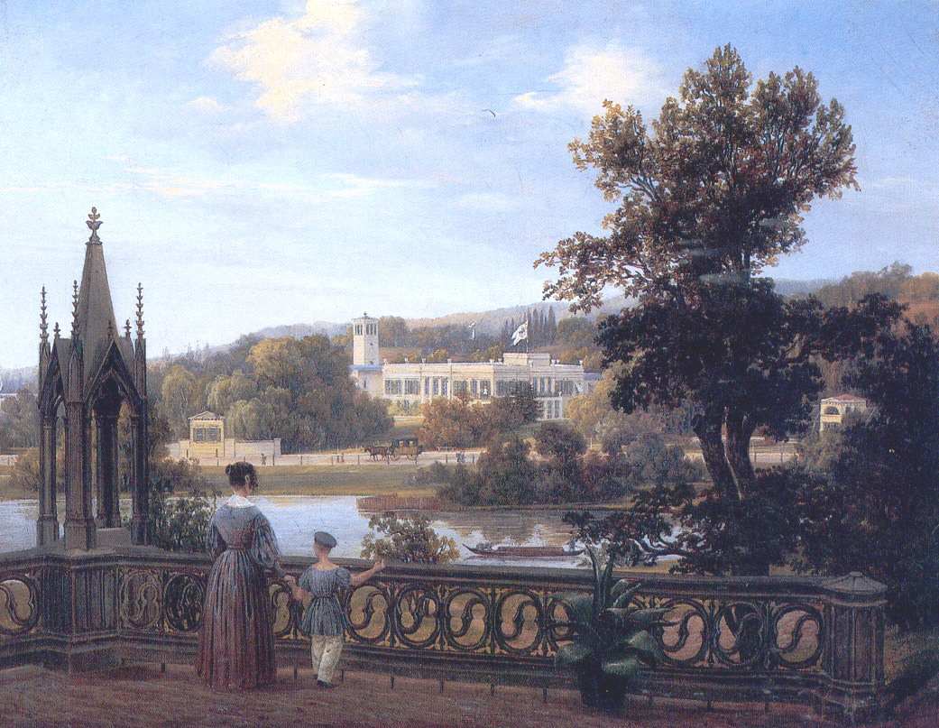 Aspect of Glienicke castle from Babelsberg (Glienicke castle, Berlin, Germany)